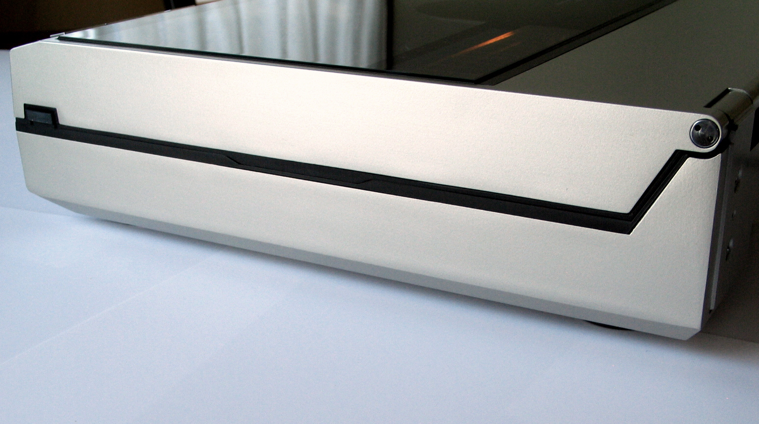 Picture of Technics SL-10, ser.DA26-04M182